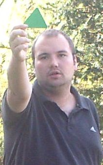 The green Hockey disciplinar card - A caution for the player, at the same time he must be 2 minutes from the field, in Hall 1 minute.